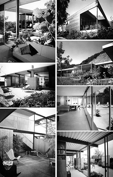 Collage Of Soriano Buildings